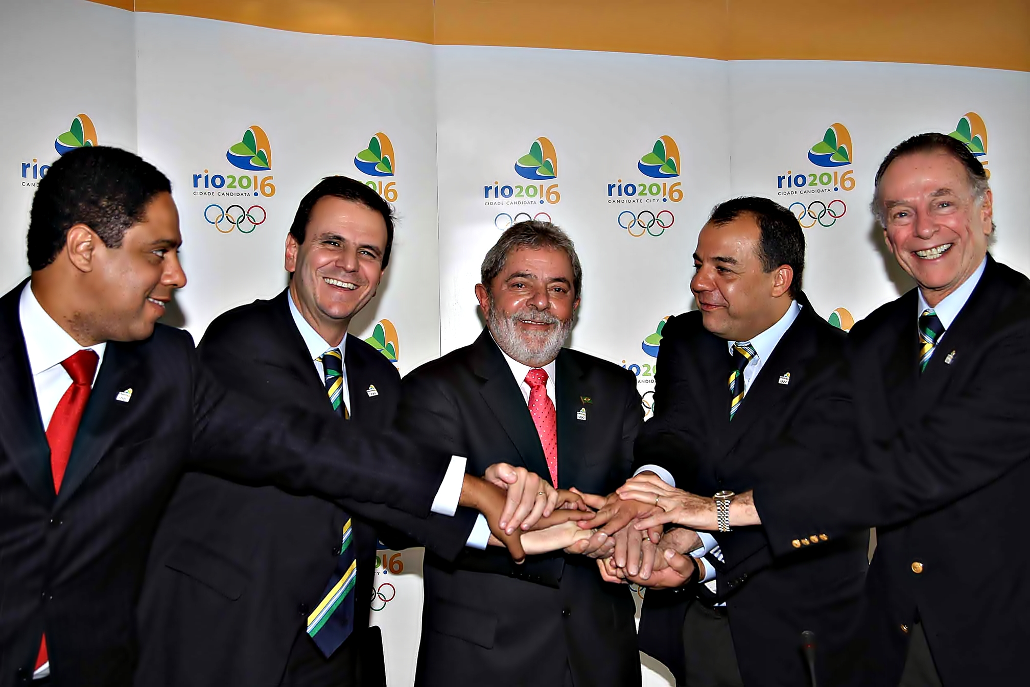 Rio de Janeiro bid officials campaigning in London, United Kingdom. The Minister of Sport, the Mayor of Rio de Janeiro, the President of Brazil, the Governor of Rio de Janeiro and the President of the Bid committee pose for photos.(From left to right: Orlando Silva, Eduardo Paes, Luiz Inácio Lula da Silva, Sérgio Cabral Filho and Carlos Arthur Nuzman.)